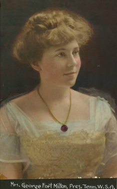 Abby Crawford Milton